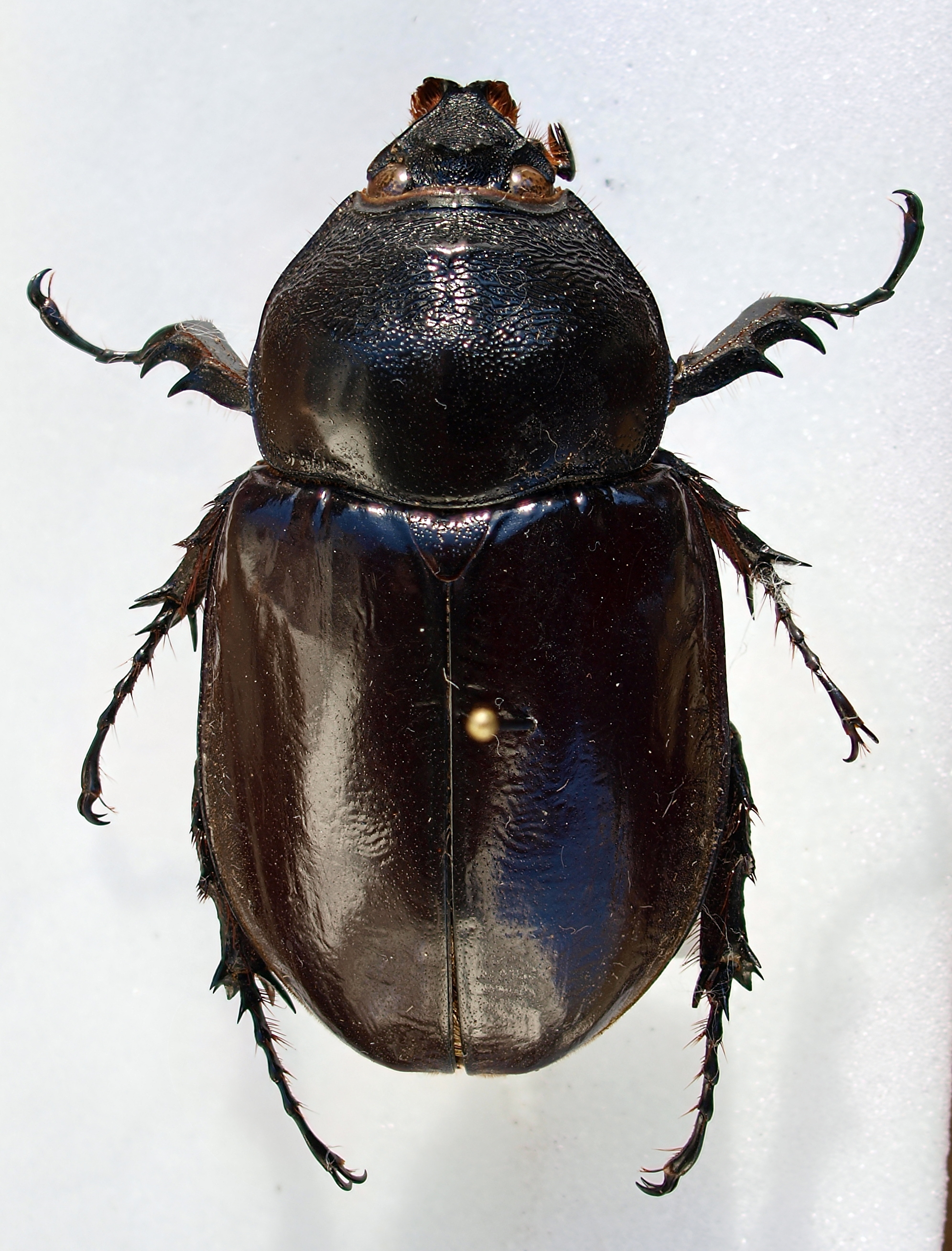 Augosoma centaurus, female